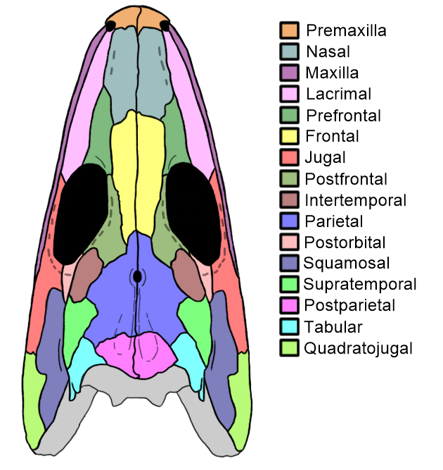 A diagram of the skull of Proterogyrinus scheelei,a Carboniferous embolomere (sensu lato). The skull is seen in dorsal view, and based on a skull reconstruction published by Holmes (1984).